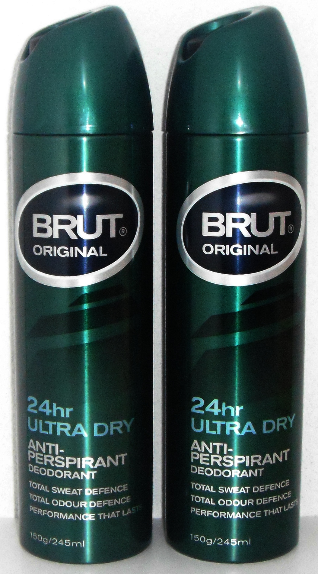 Brut Original Anti-Perspirant Deodorant 24hr Ultra Dry